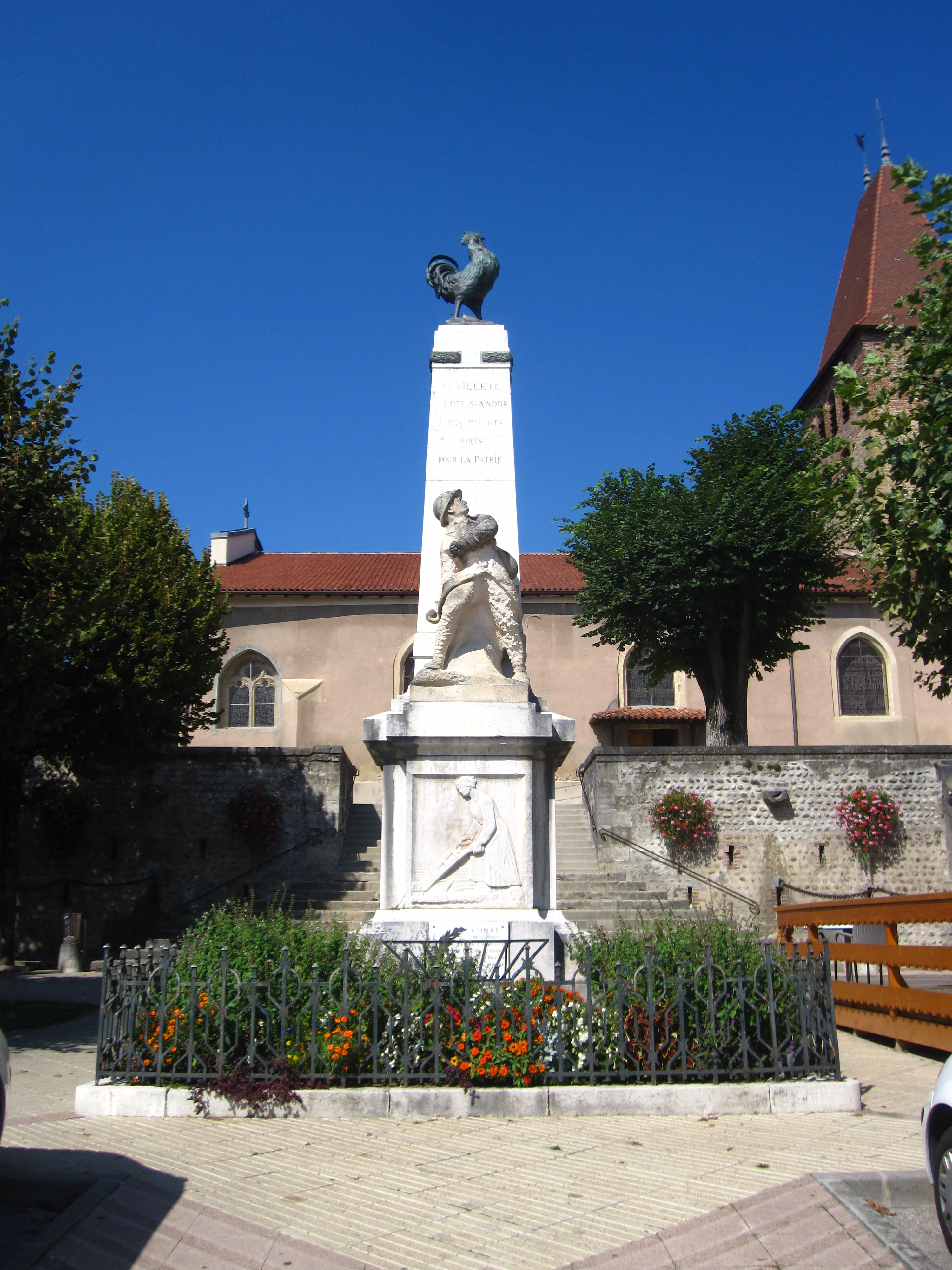 Photograph of the War Memorial in La Côte-Saint-André